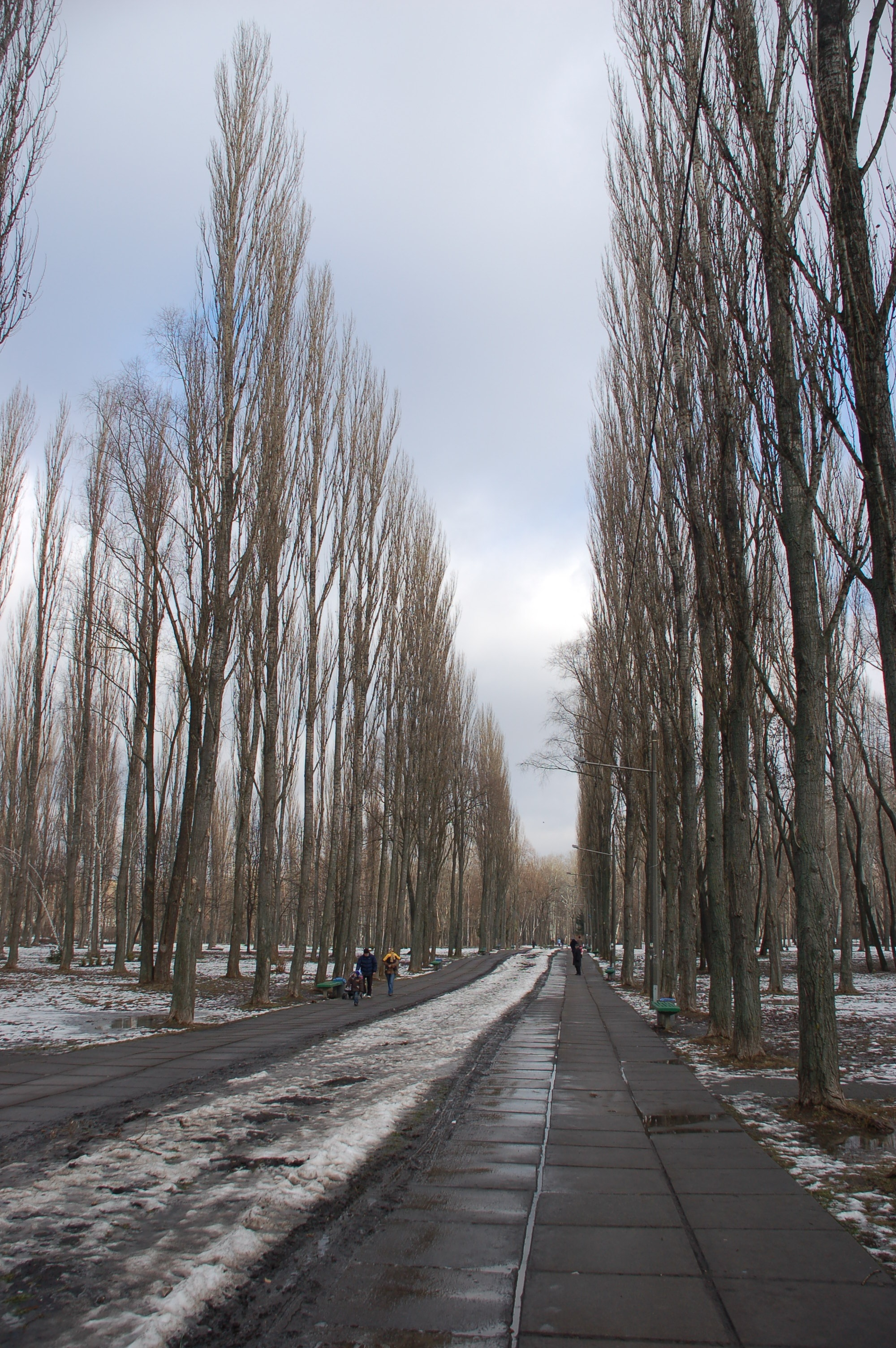 Alley in Babi Yar, Kiev